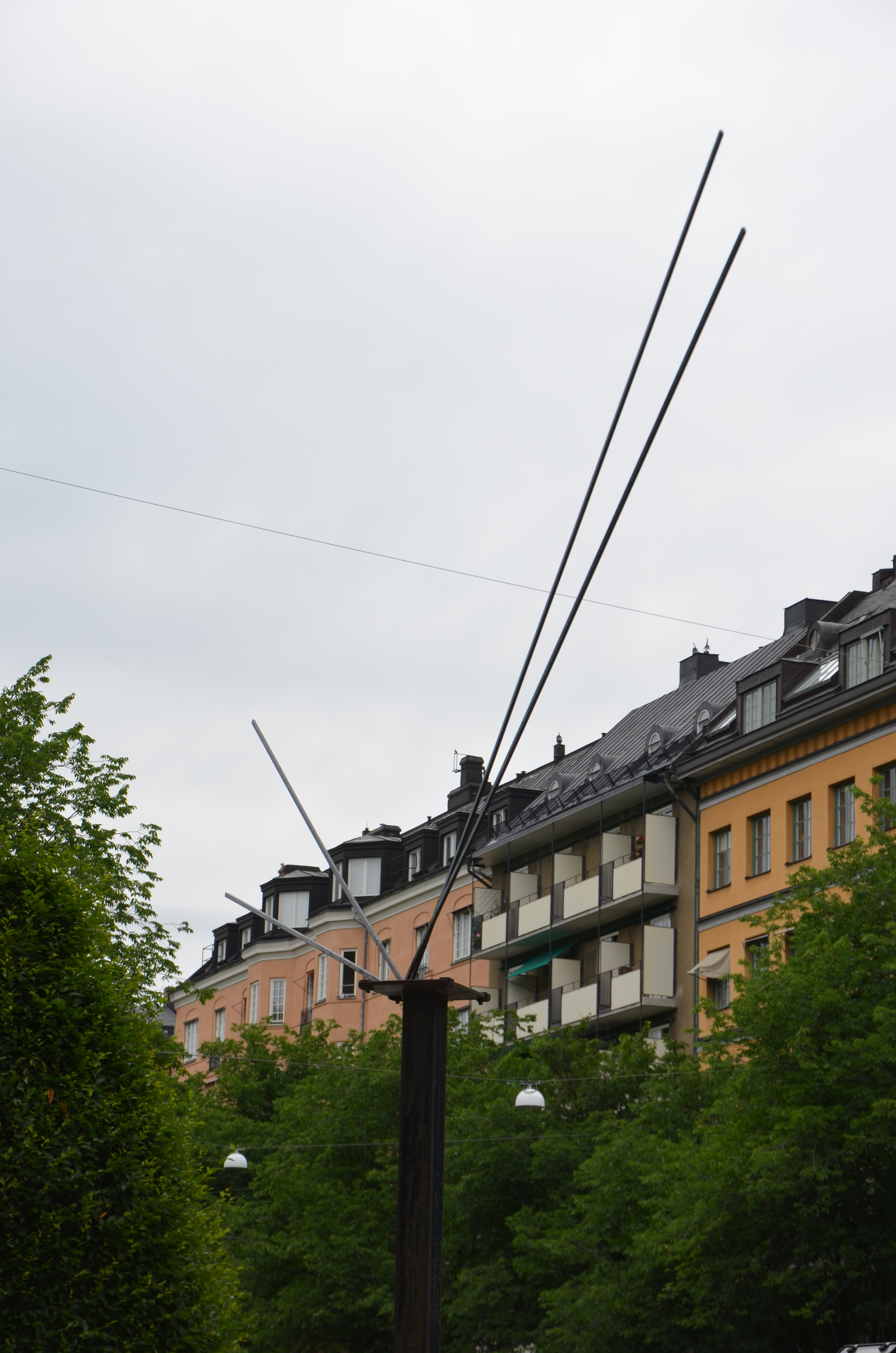 Olle Baertlings Xral utanför Handelshögskolan i Stockholm